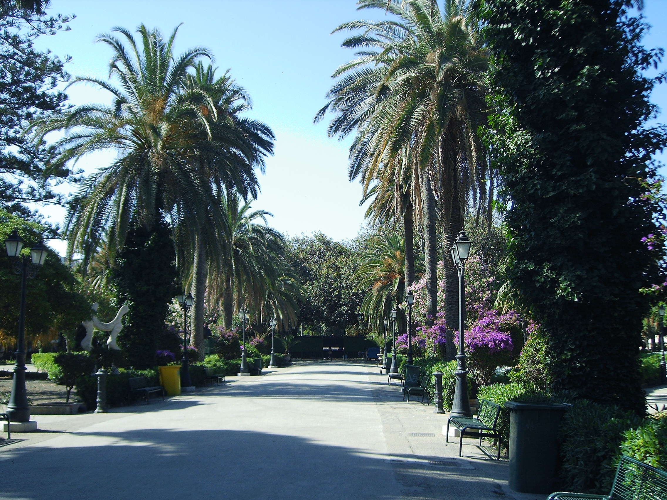 park in Trapani Villa Margherita